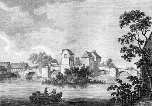 Bedford Bridge. This bridge has been replaced.